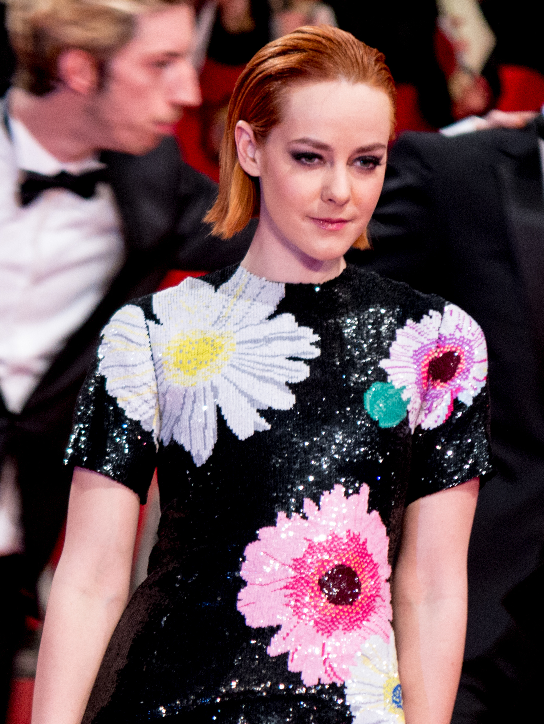 Jena Malone at Berlinale 2015